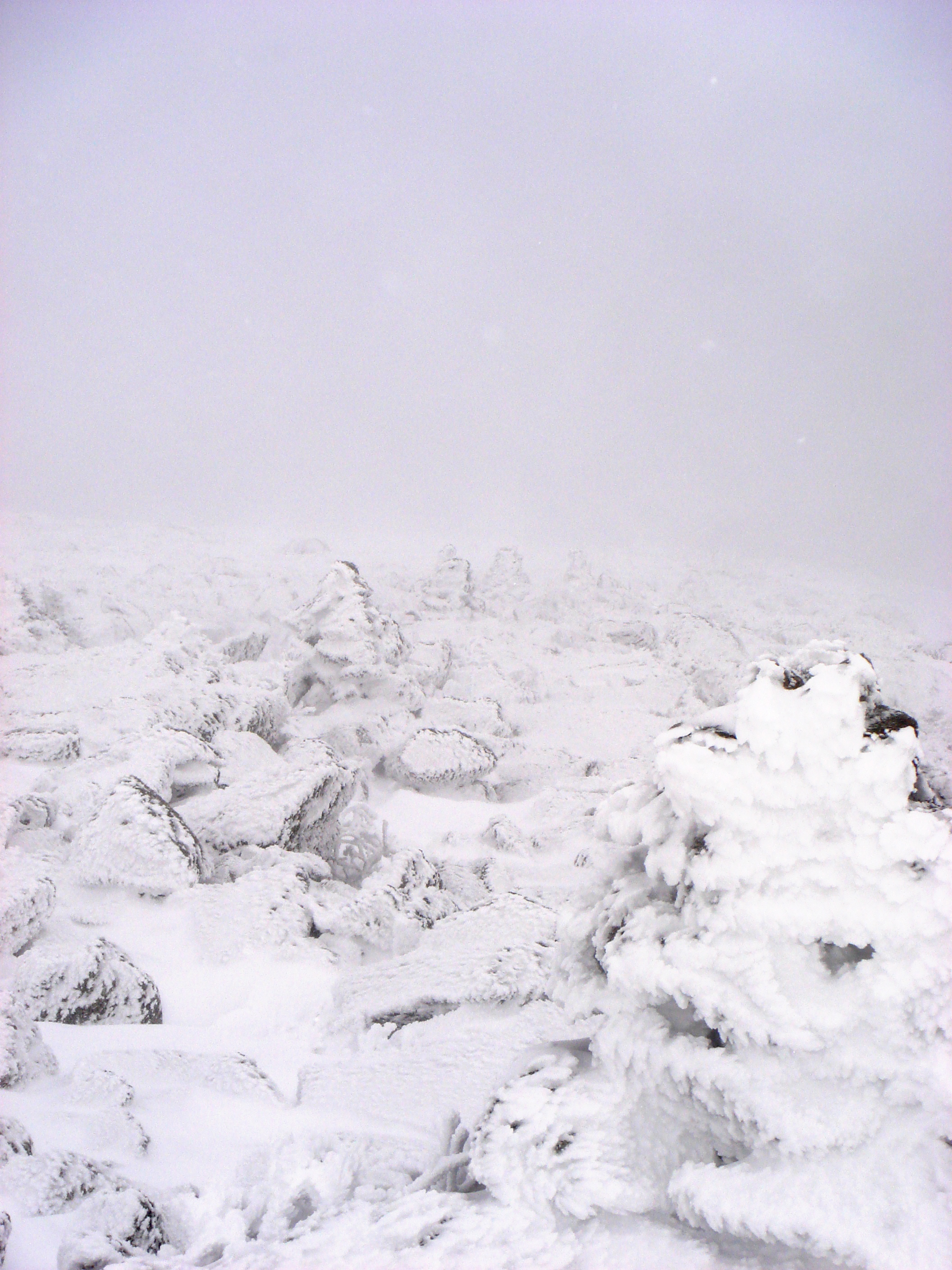 Picture of cairns along the Lion's Head trail on Mt. Washington, NH. Taken in late November during a snowstorm.